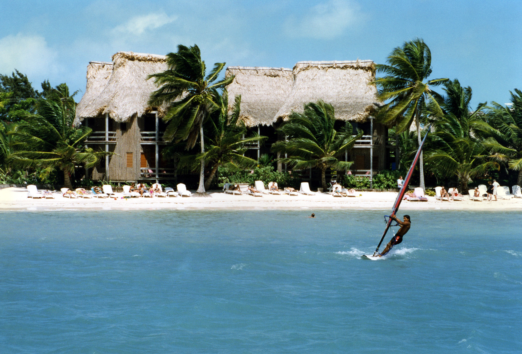 The wind this trip was too stiff for diving, but the windsurfers loved it.